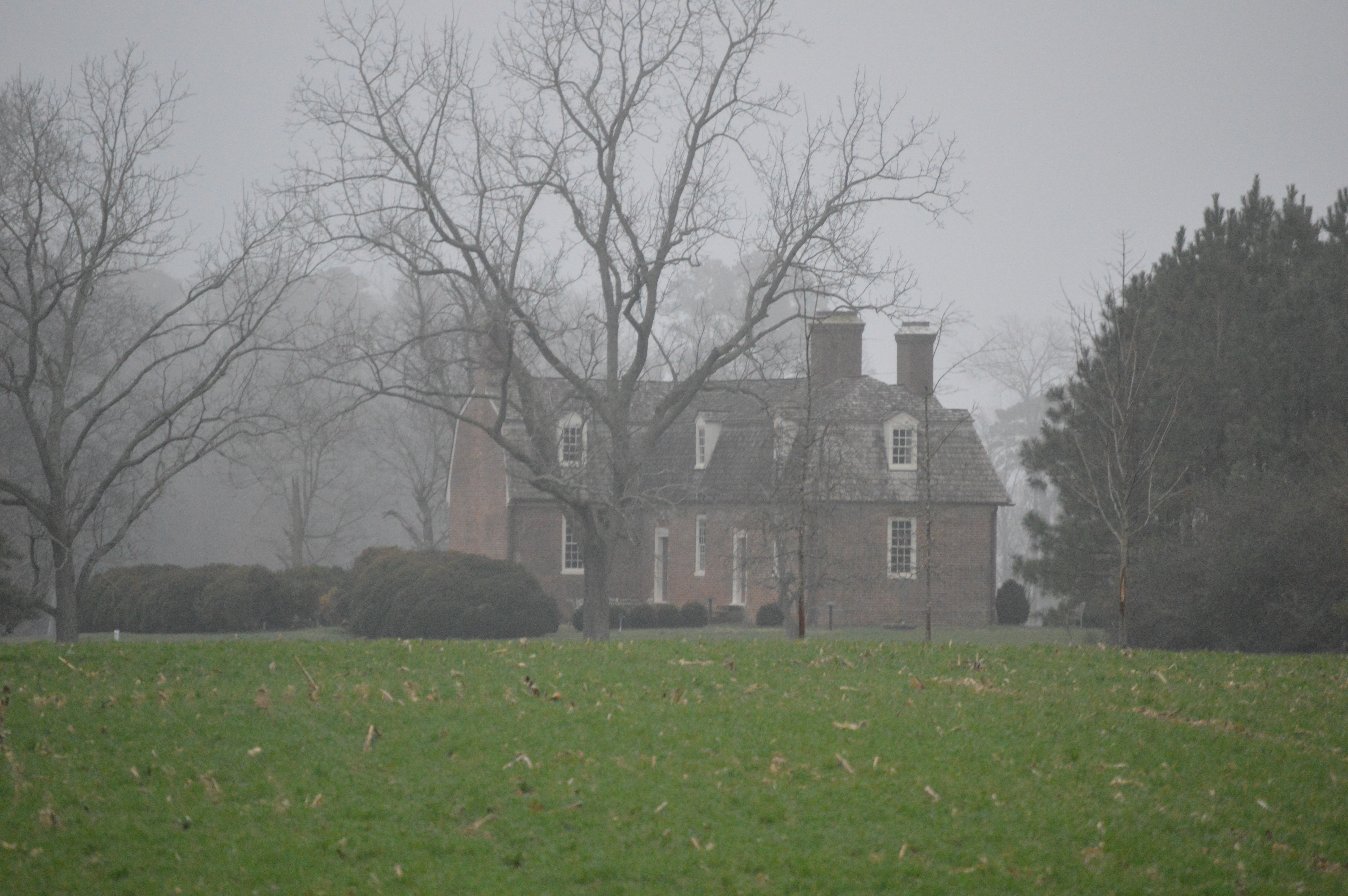 Distant view from the north of the Wilton plantation house, located on State Route 3 north of its crossing of the Piankatank River in eastern Middlesex County, Virginia, United States. Built in 1763, it is listed on the National Register of Historic Places.